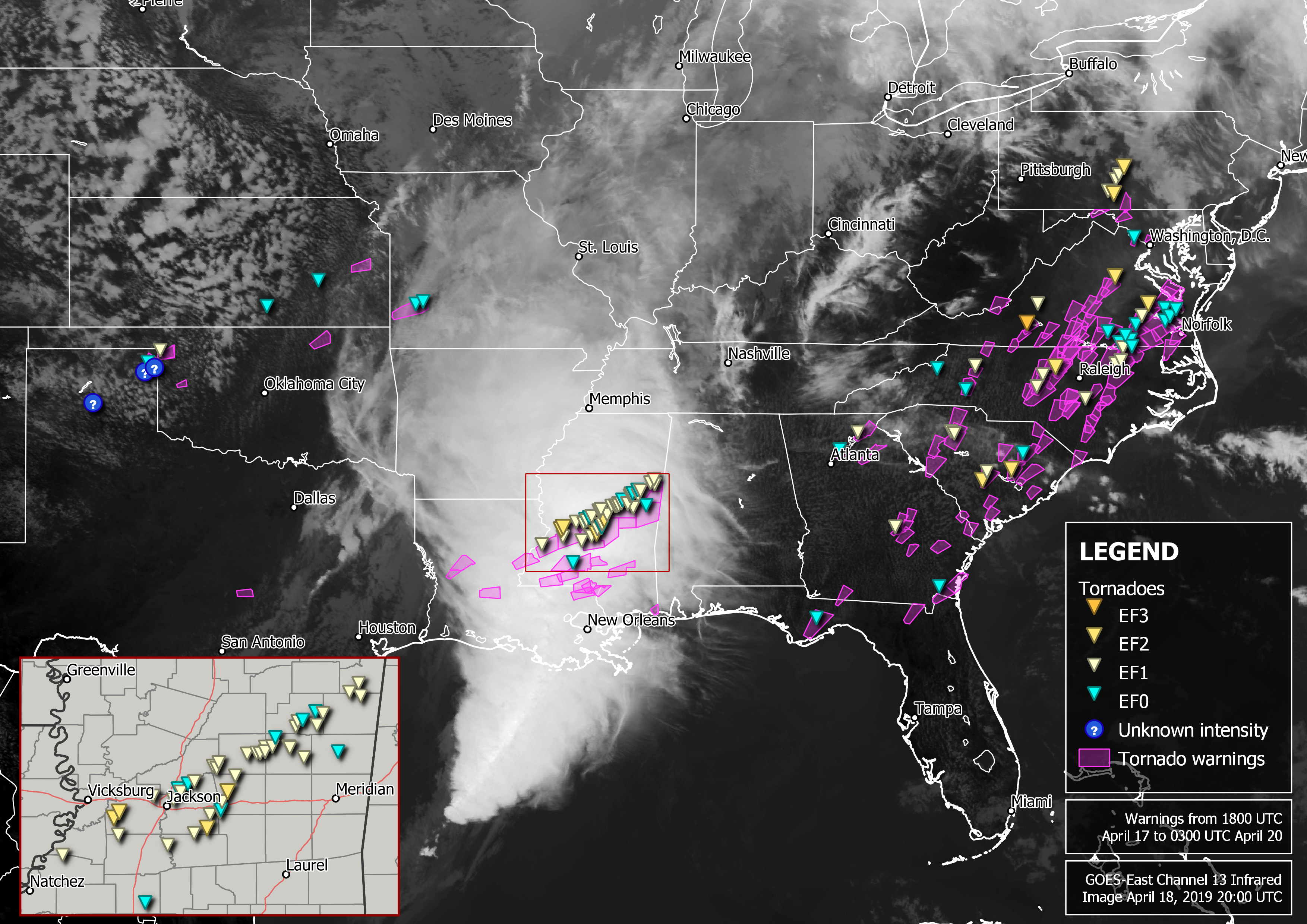 Map of tornado warnings issued by the National Weather Service between April 17 and April 19, 2019 over the eastern United States and tornadoes confirmed and surveyed by the National Weather Service overlaid on a GOES-16 channel 13 infrared brightness temperature image from 20:00 UTC on April 18. Map produced in QGIS with border outlines from the United States Census Bureau. National Weather Service warning outlines available from the Iowa Environmental Mesonet and tornado data available from the National Weather Service. Terra imagery from NASA Worldview.